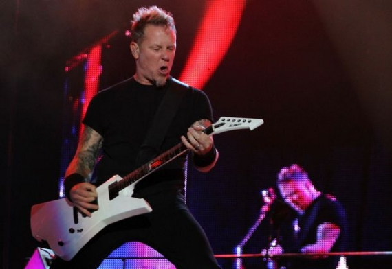 James Hetfield performing with metallica at Rock in Rio IV, in Rio de Janeiro, Brazil 2011, 08, 25